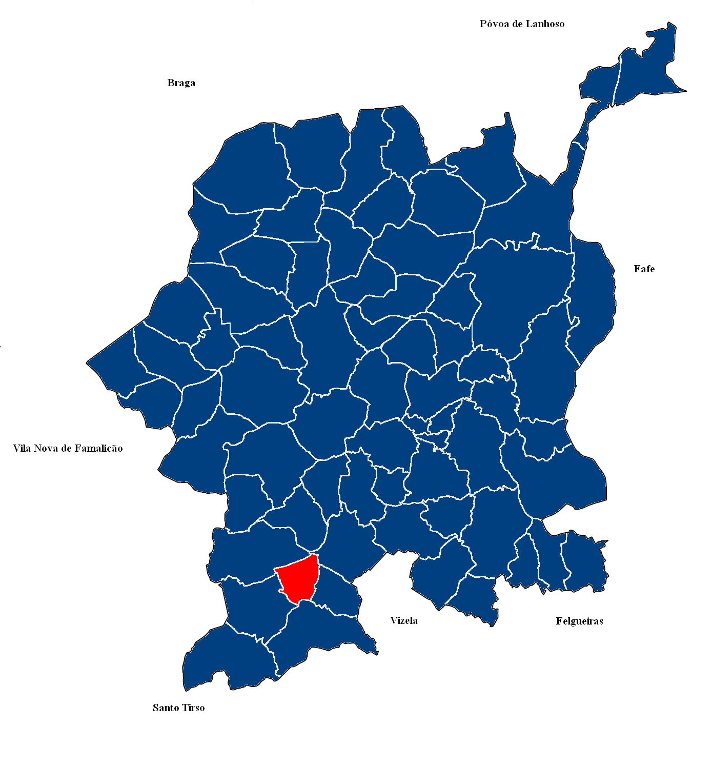 Map of Azurém Gandarela, Guimarães Municipality, Portugal